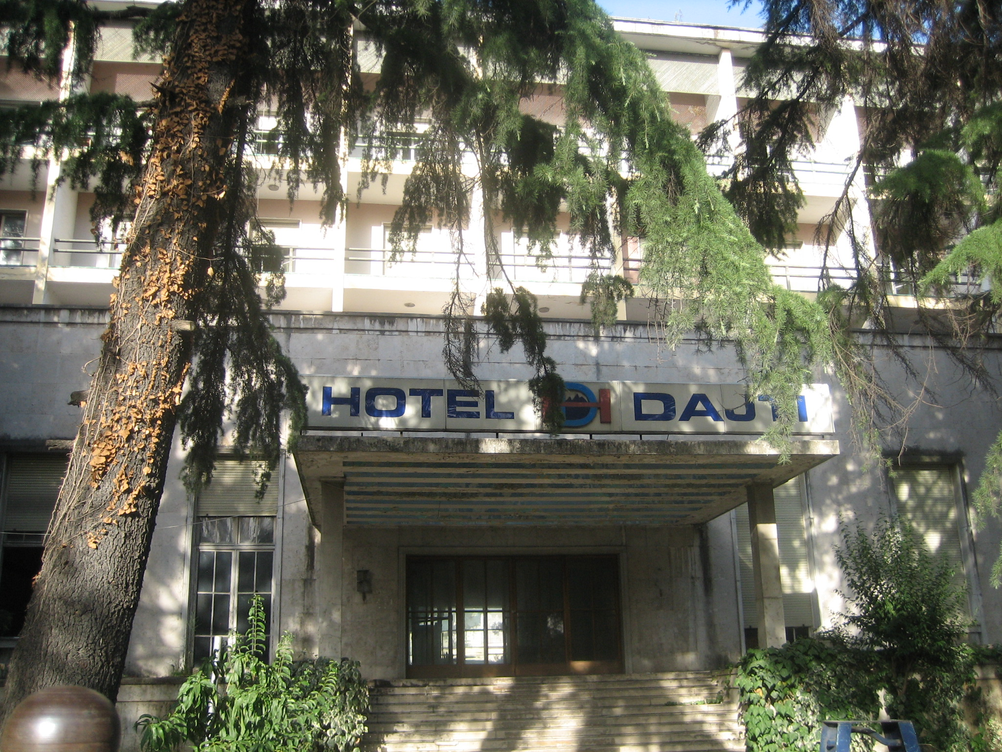 Hotel Dajti, Tirana, Albania